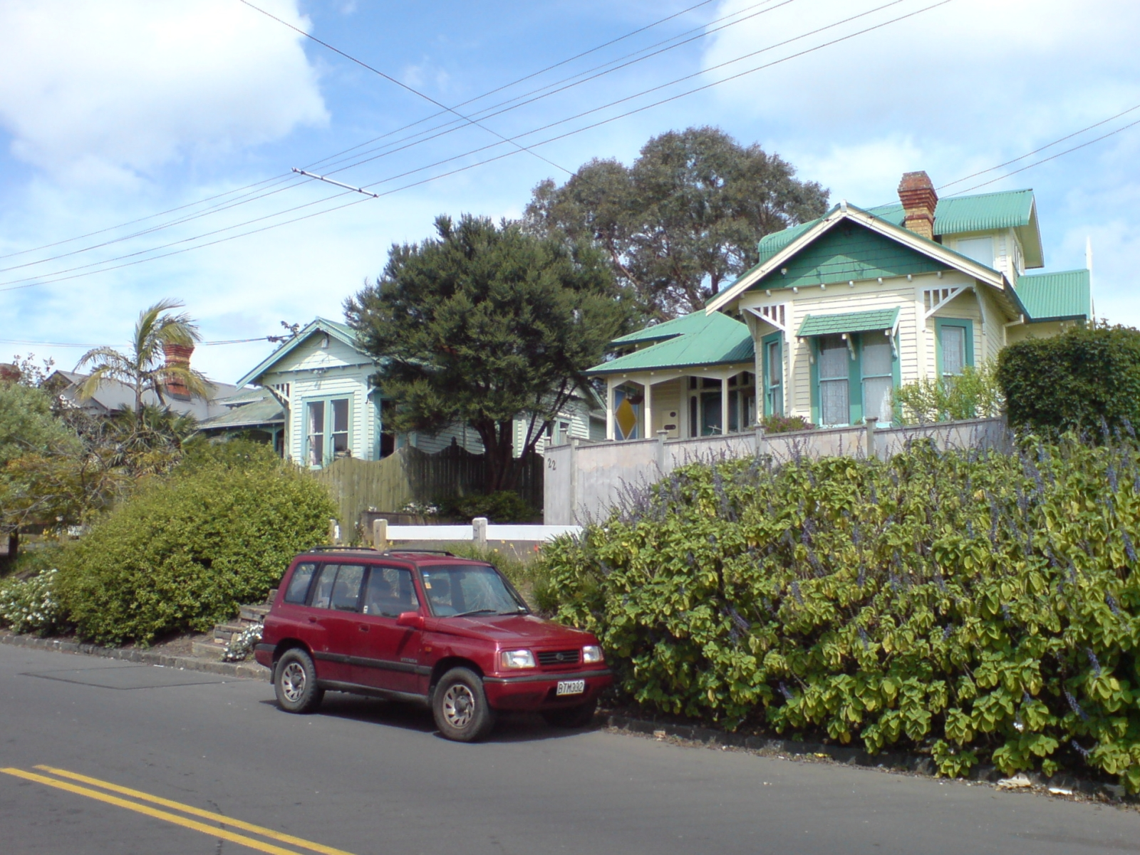 Some older villas in southern Grey Lynn in Auckland City, New Zealand. Coordinates might be off by some dozen meters up or down the road.